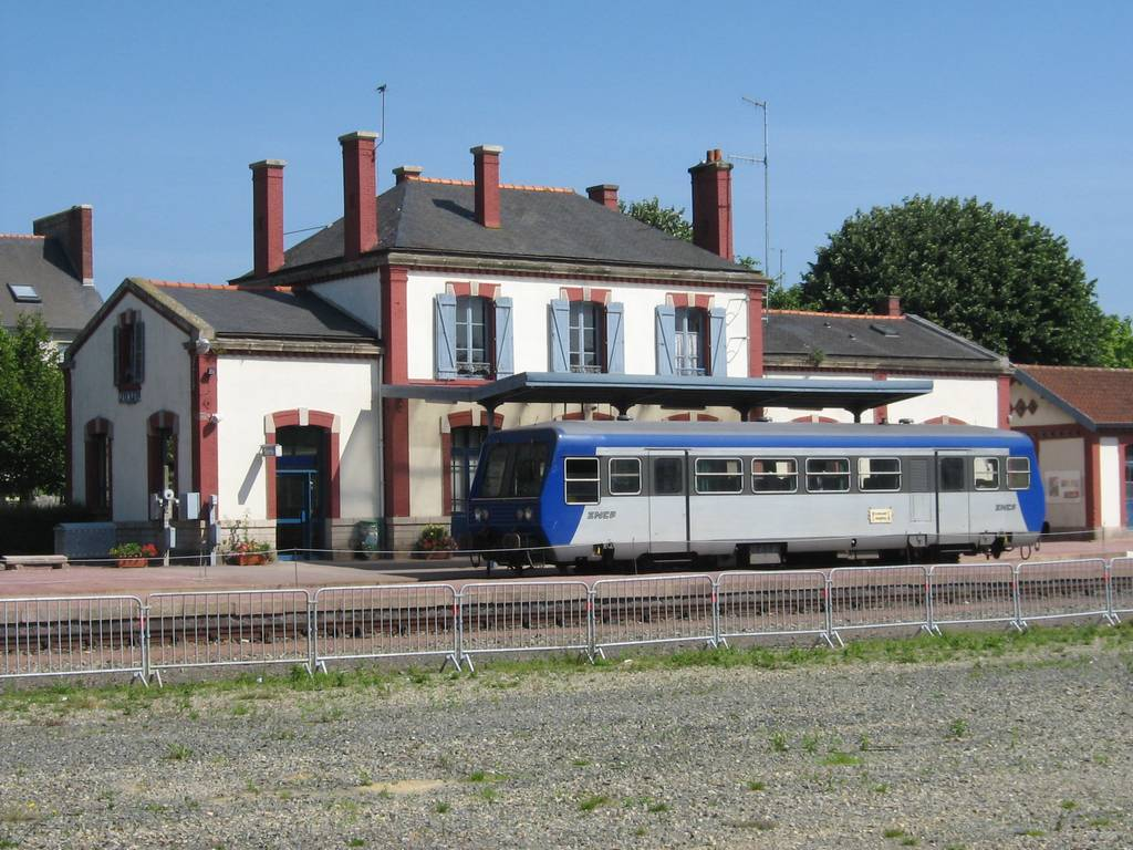 Autorail A2E en gare de Paimpol